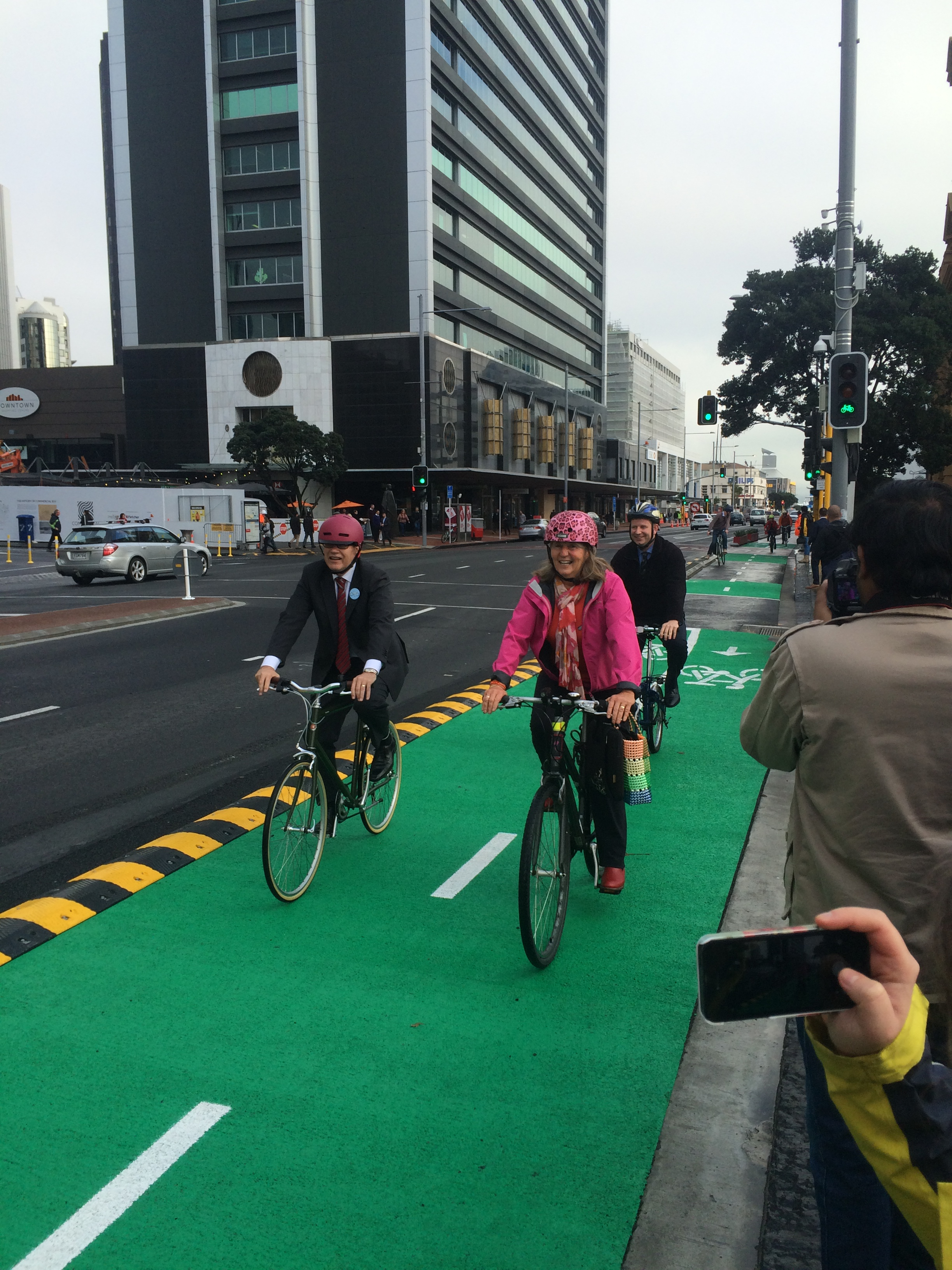 Quay Street Cycleway opening on 8 July 2016.